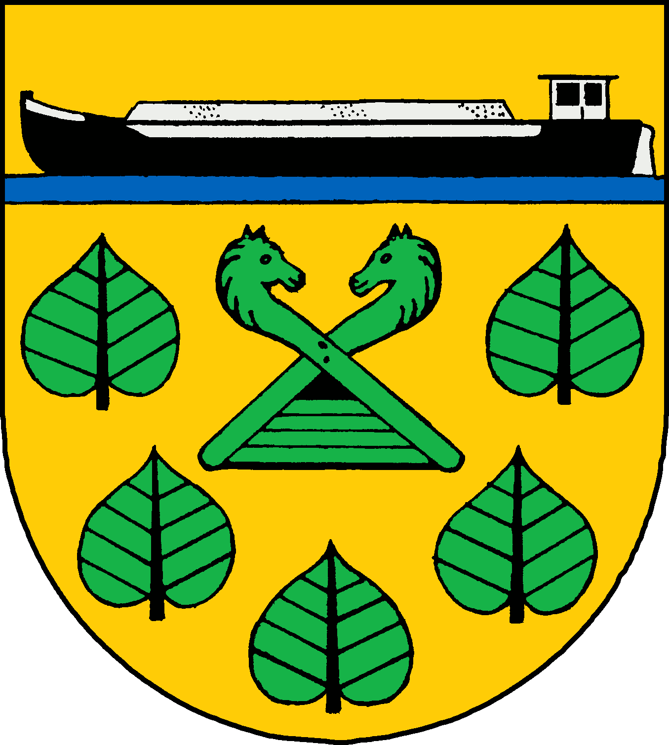 Coat of arms of the municipality Güster in Schleswig-Holstein, Germany.